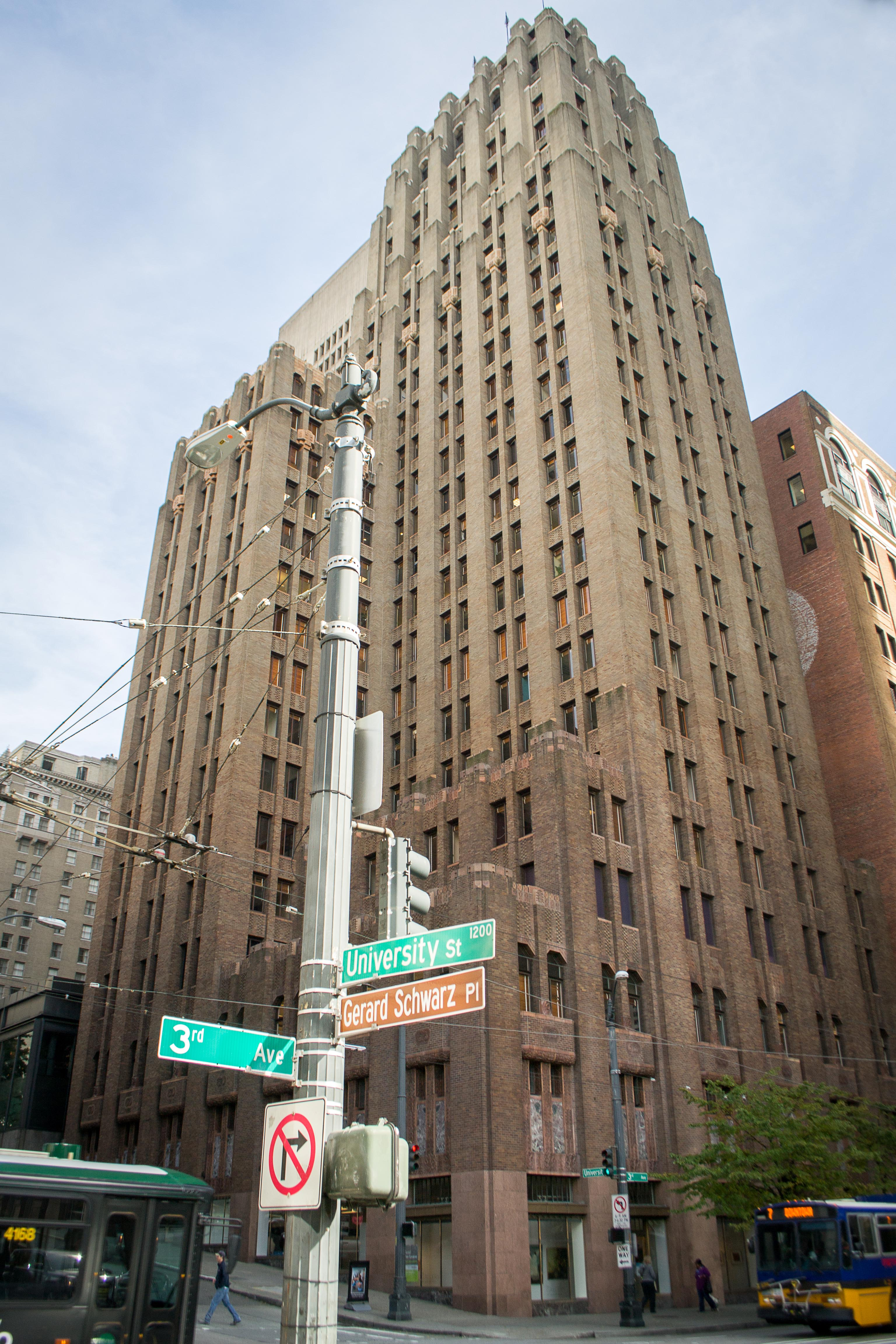 A street corner view of the Seattle Tower